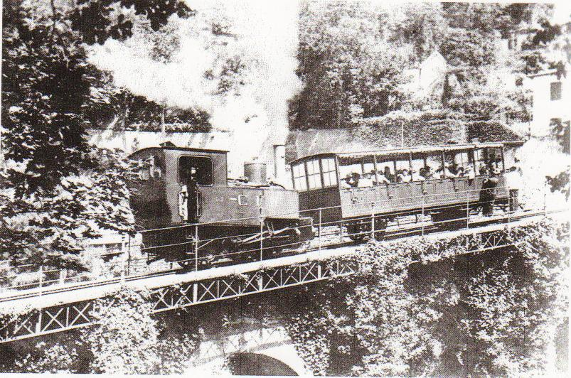 Caminho de Ferro do Monte - Old tramway in Funchal, Madeira